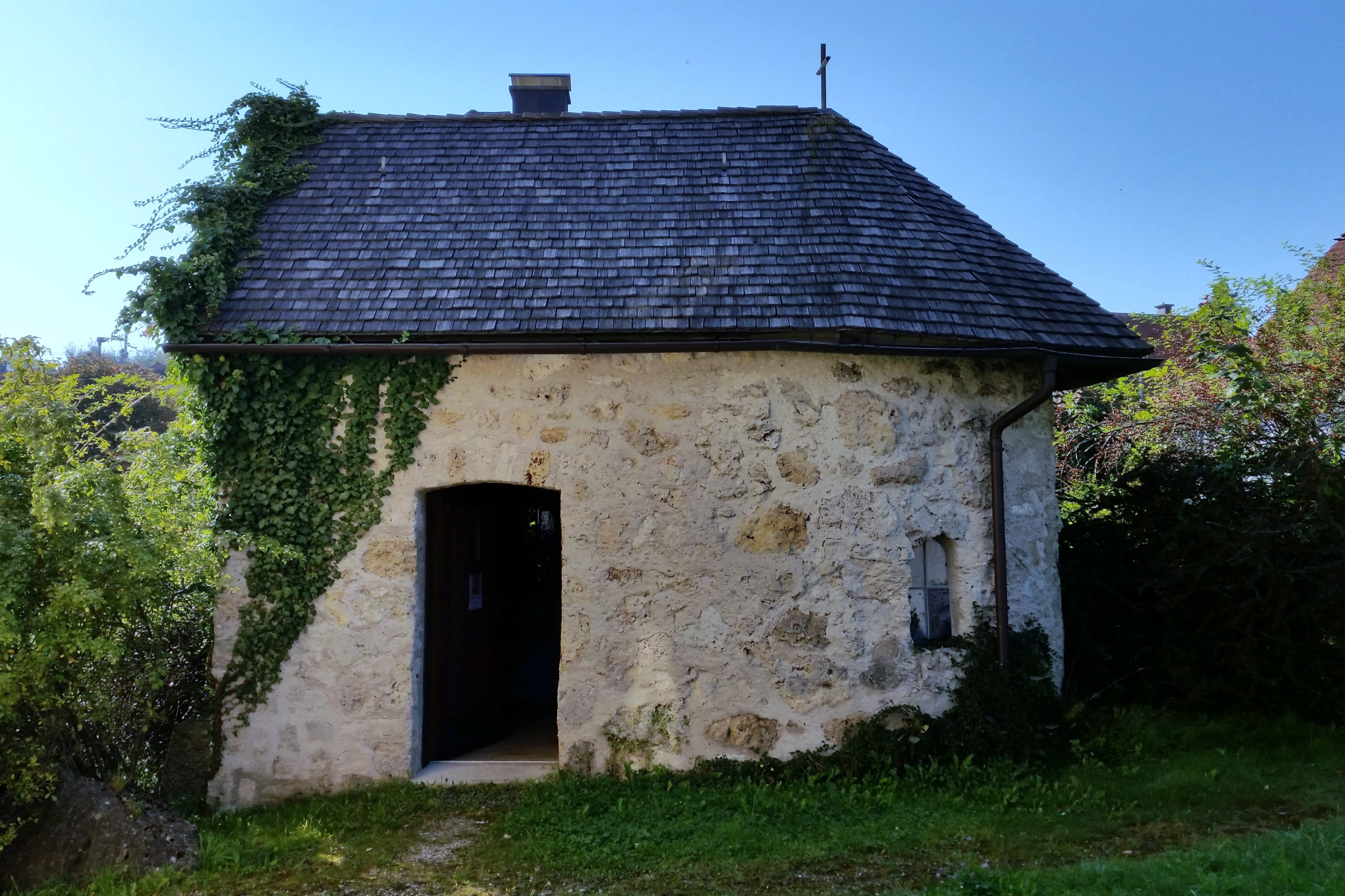 This is a photograph of an architectural monument.